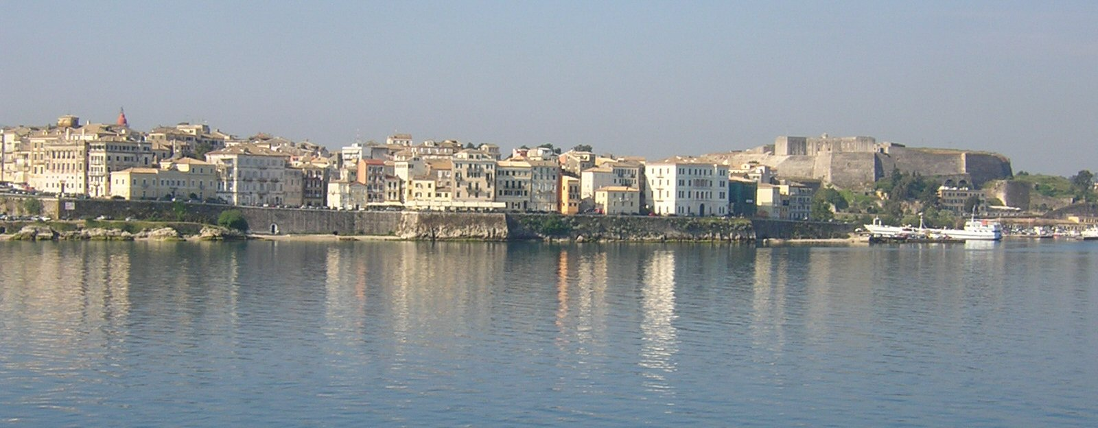 The town of Corfu seen from the sea, south of the harbor, at the right of the picture the new citadel. Corfu Island, Greece